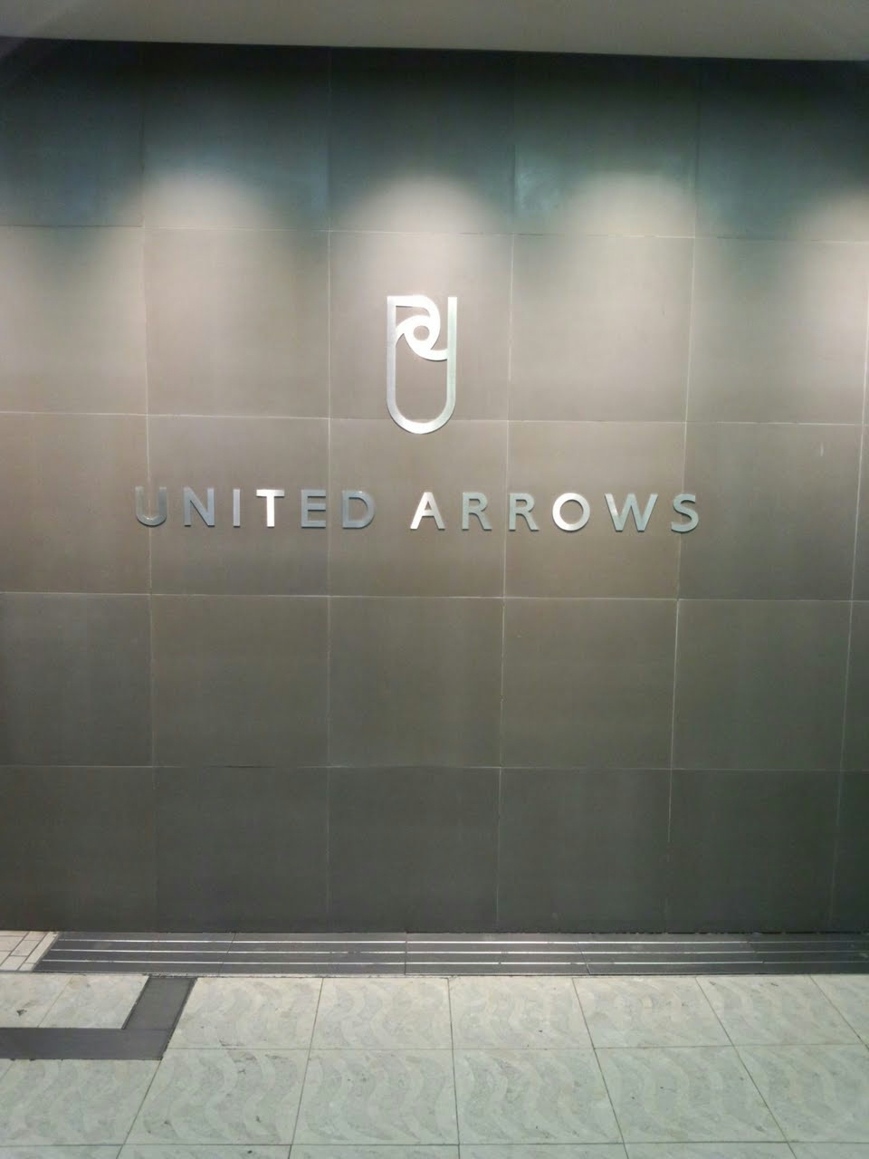 Darkbrown Billboard UNITED ARROWS